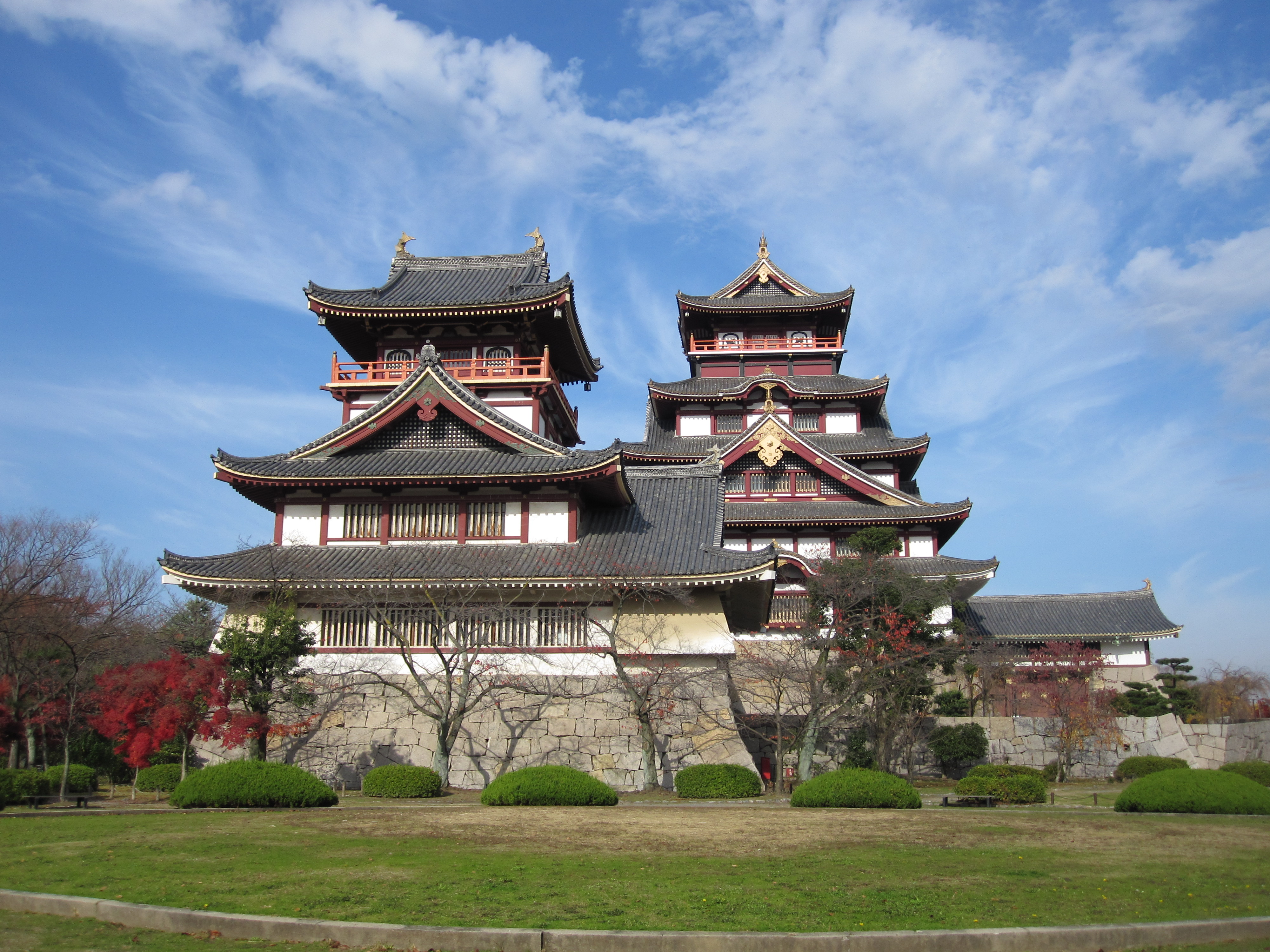 View of the reconstructed main towers of Fushimi-Momoyama Castle in Kyoto, Japan.